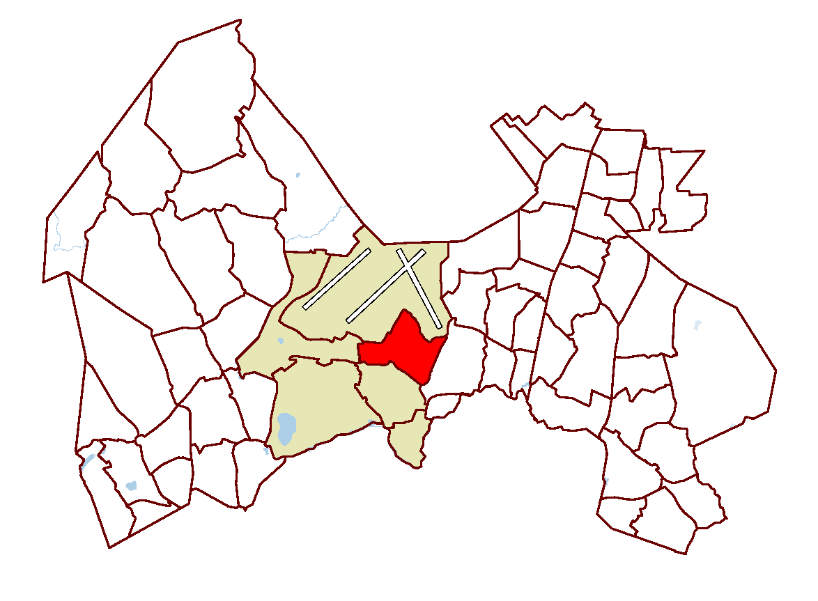 District of Veromies (marked red), within Tikkurila service area (marked light brown) in Vantaa, Finland